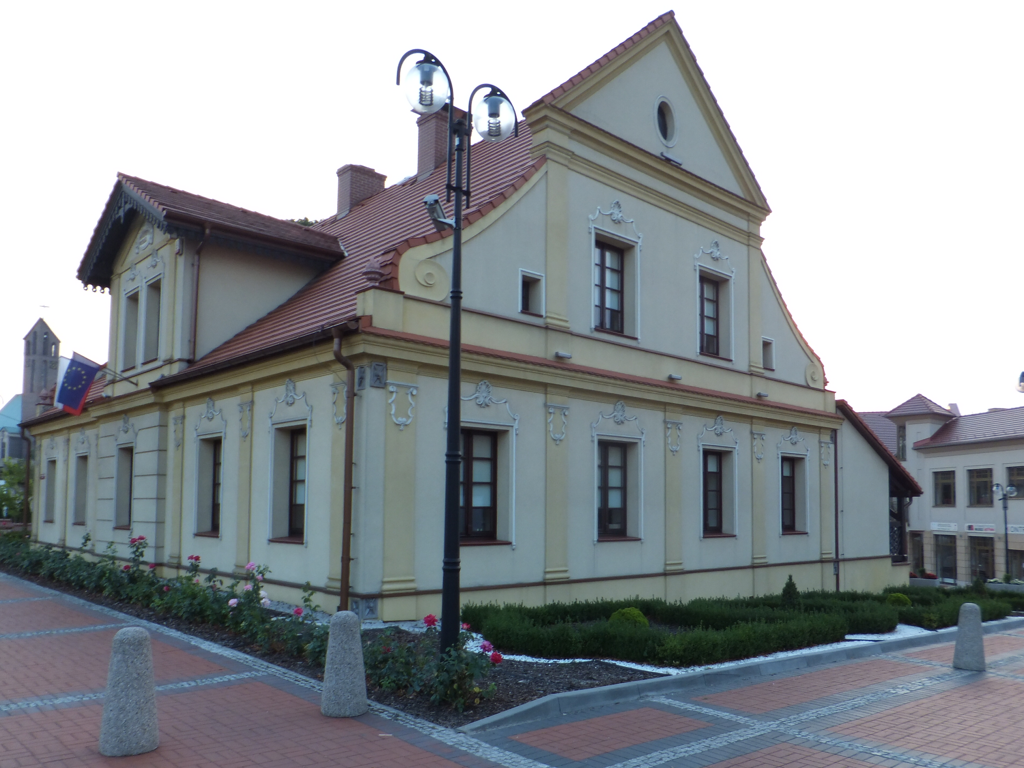 Baroque building of the Public Library in Lędziny (Poland) from 1788 (the building was built as a rectory).